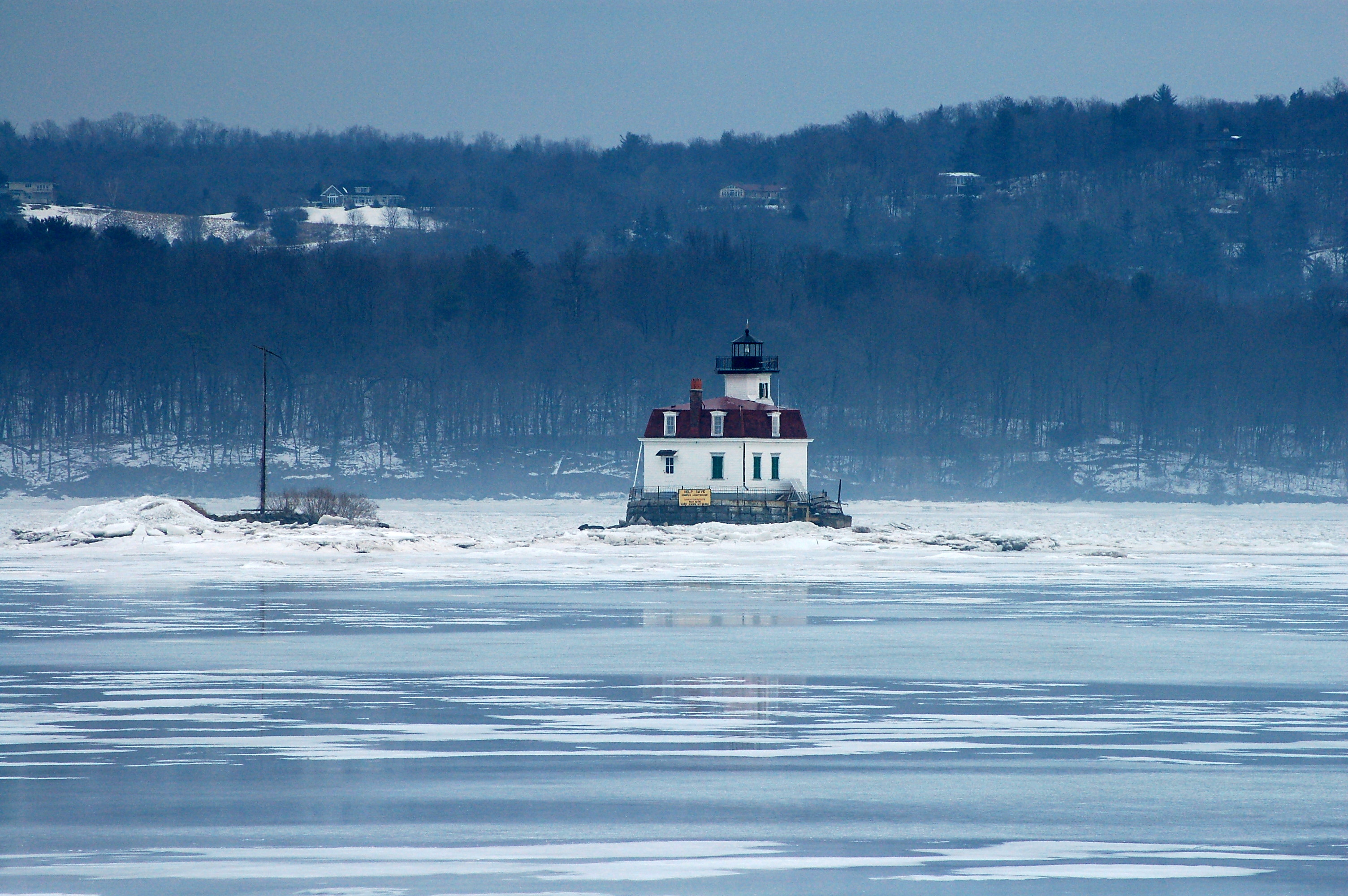 Esopus Meadows Light, Esopus, NY USA (Hudson River)